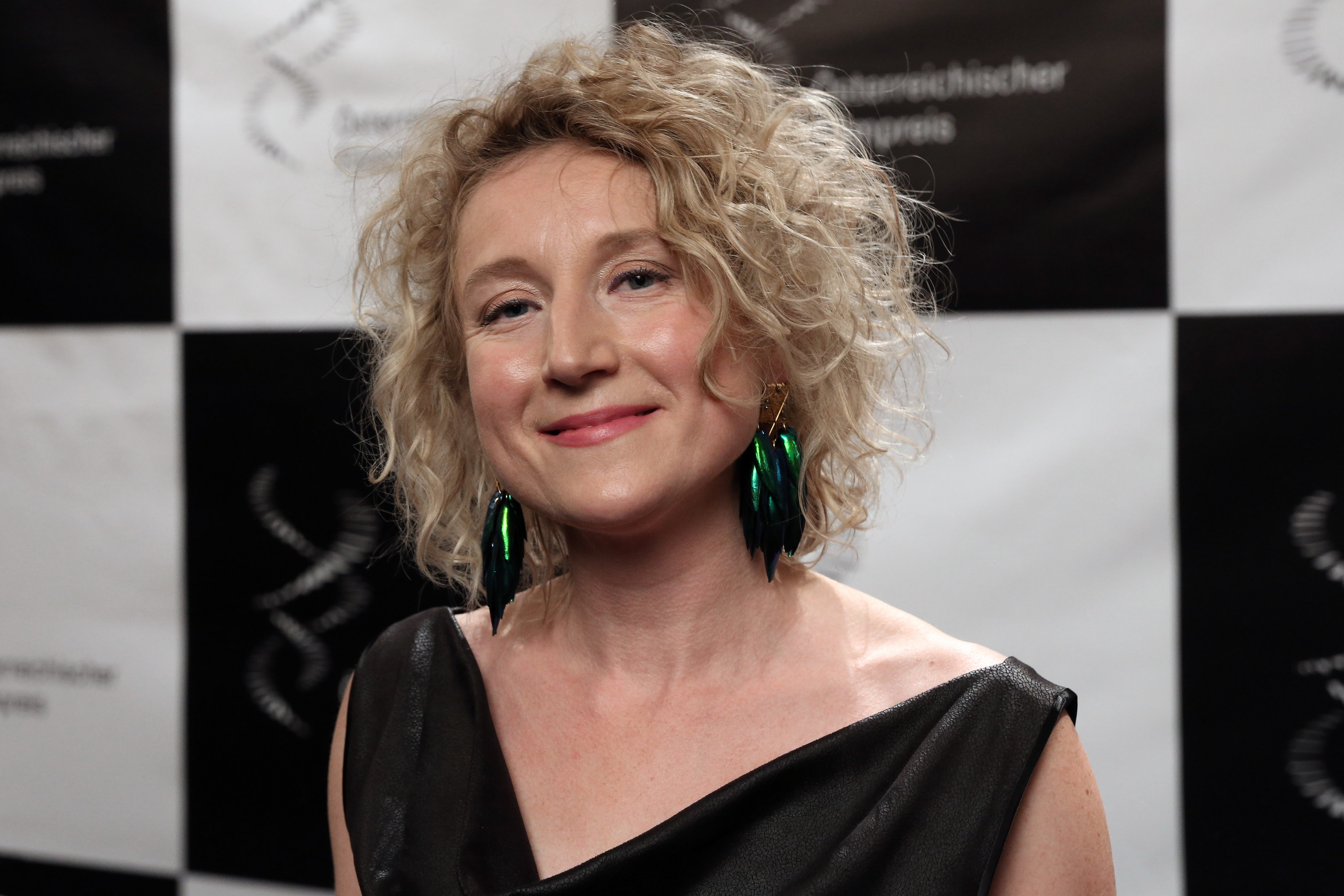 Tanja Hausner at the Austrian Film Awards 2015 at Rathaus, Vienna,Austria.